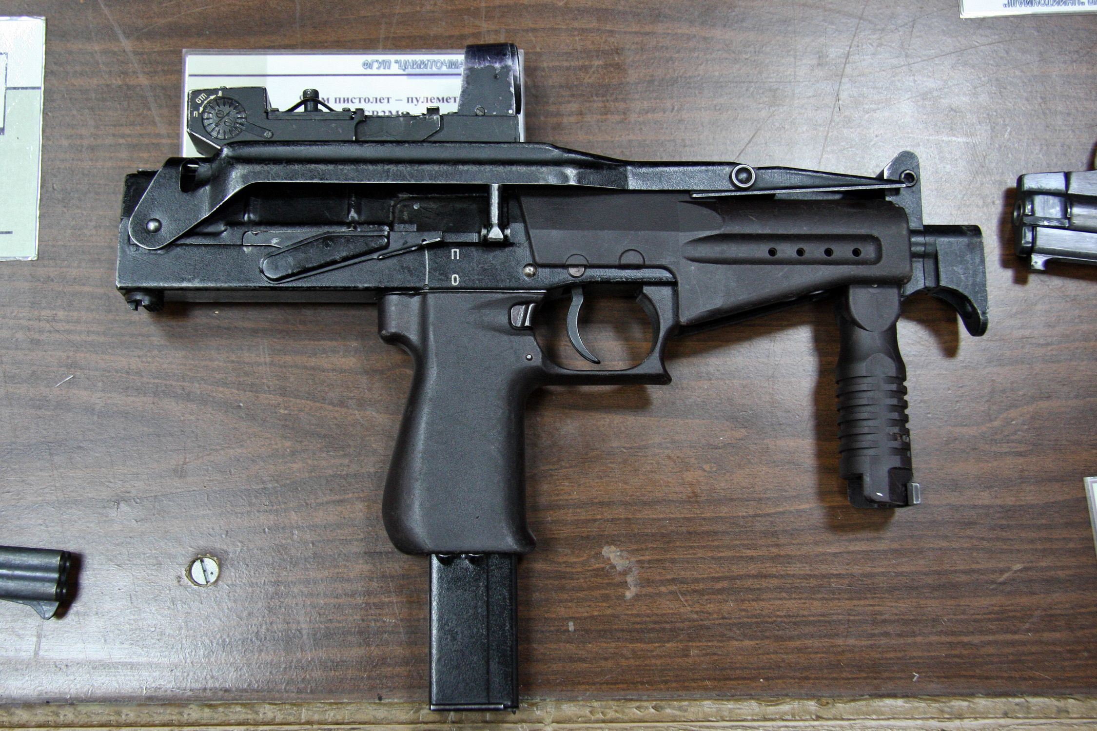 SR2M submachine-gun - TSNIITOCHMASH